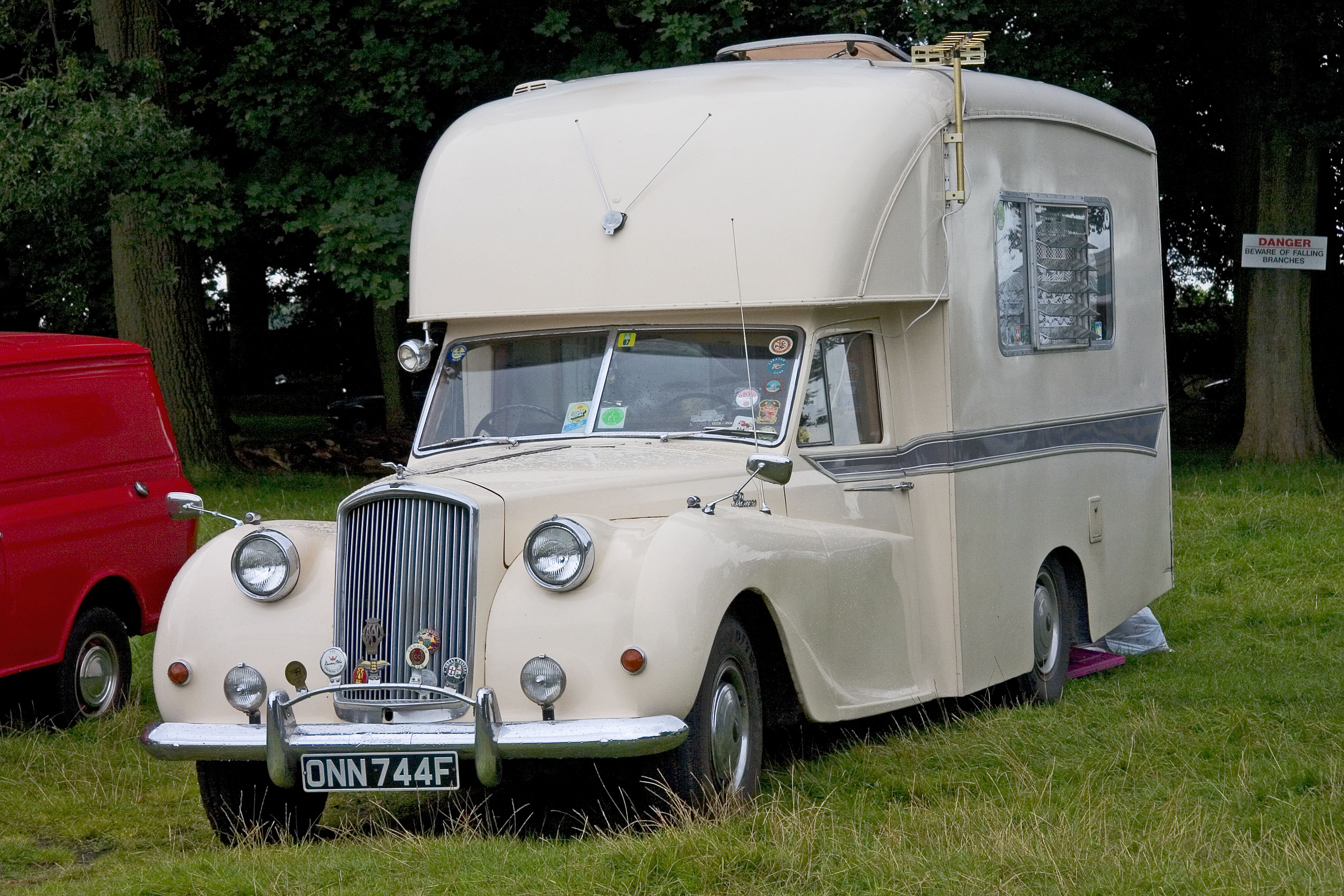 Vanden Plas Princess DM4 Motorhome. This may be a conversion by Martin Walter of Dormobile fame, or built by Jennings of Sandbach, a subsidiary of ERF lorries.